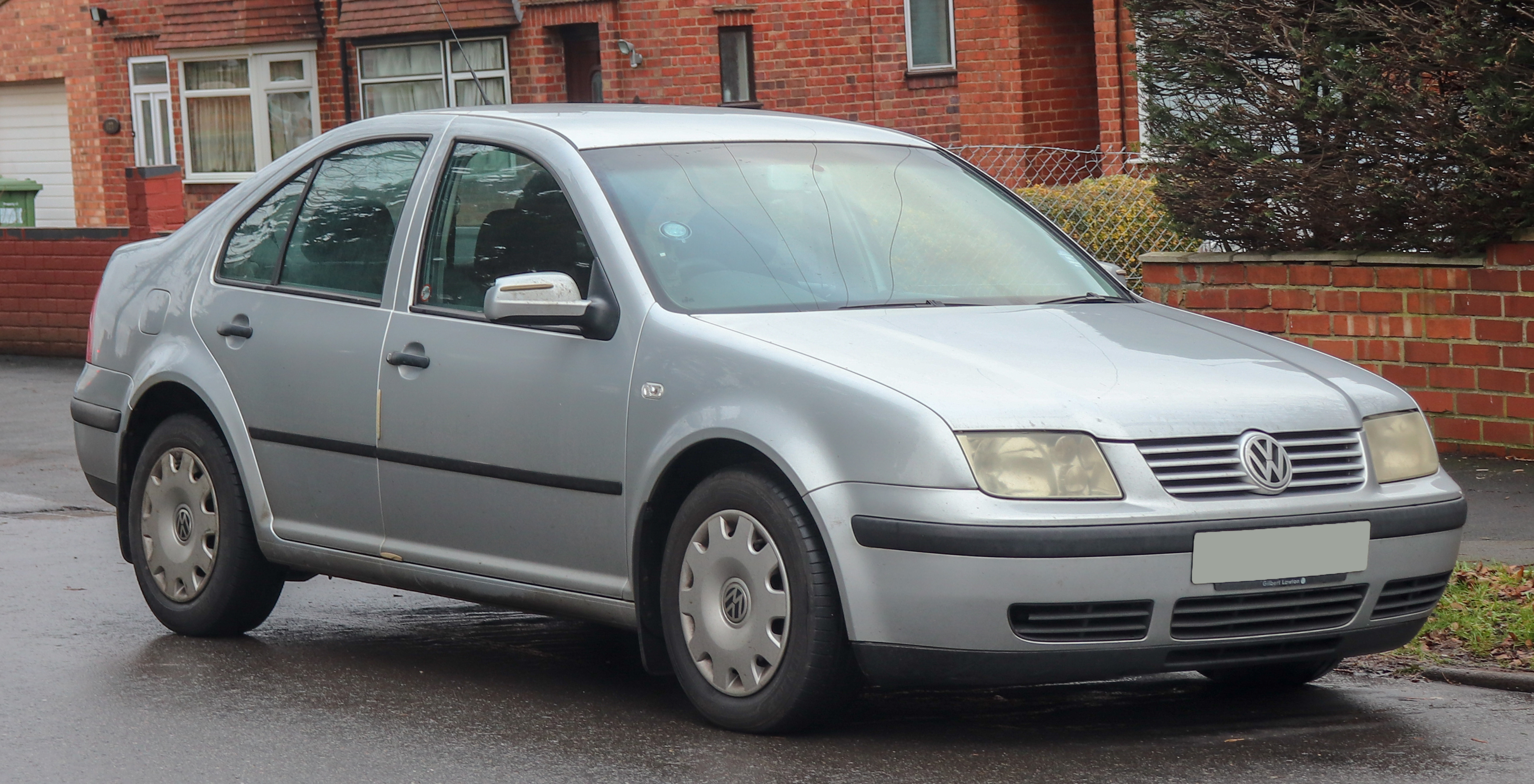 2003 Volkswagen Bora S TDi 1.9 Front Taken in Whitnash